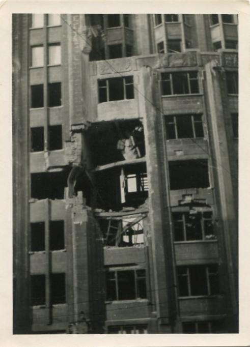 Close-up snapshot of buzz bomb damage to the Torengebouw van Antwerpen (or “Boerentoren”), the first skyscraper in Europe, in Antwerp, Belgium, during World War II. Photograph taken or collected by William L. Flournoy while he was stationed there with the 280th Port Company, U.S. Army [circa 1945]. From William L. Flournoy Sr. Papers, WWII 109, WWII Papers, Military Collection, State Archives of North Carolina, Raleigh, N.C.